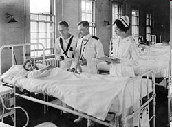 Boston Naval Hospital, where a surgeon, nurse and corpsman examine a patient in Ward 6, Group 1, on June 2, 1919 Photo courtesy of U.S. Naval Historical Center, # NH 42355